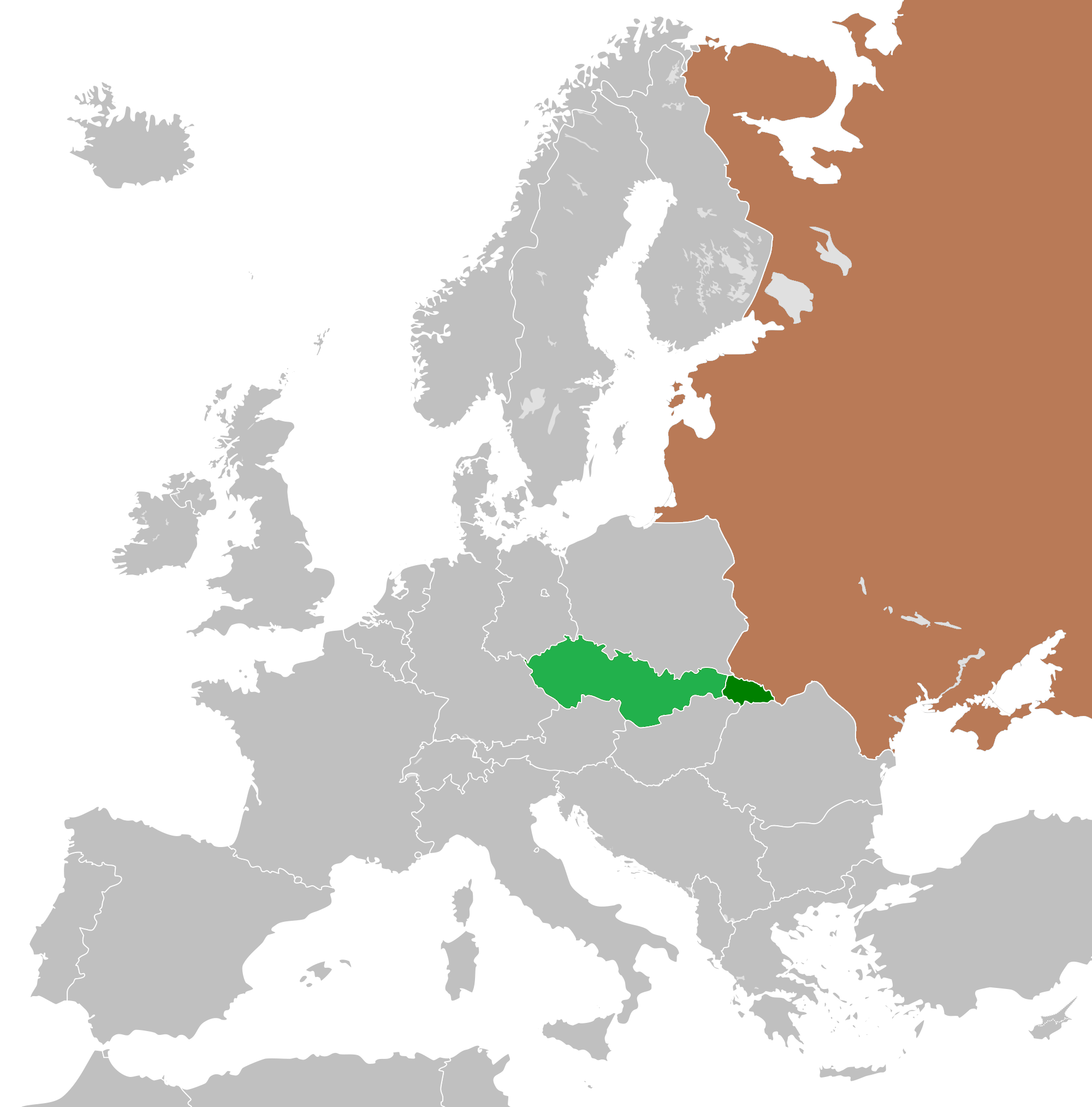 location of the Carpathian Ukraine and Czechoslovakia during their assignment in 1948 2